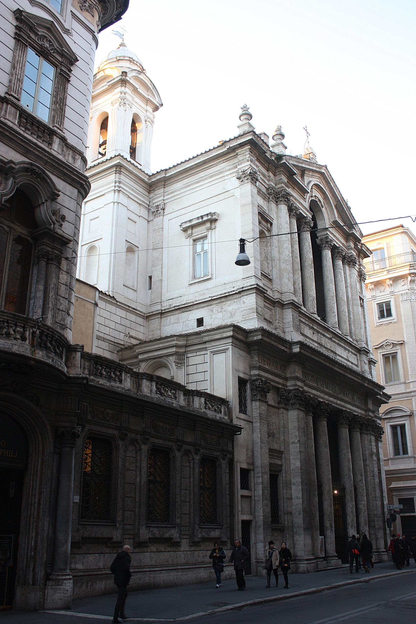 Rome, the church Santa Maria in Via Lata